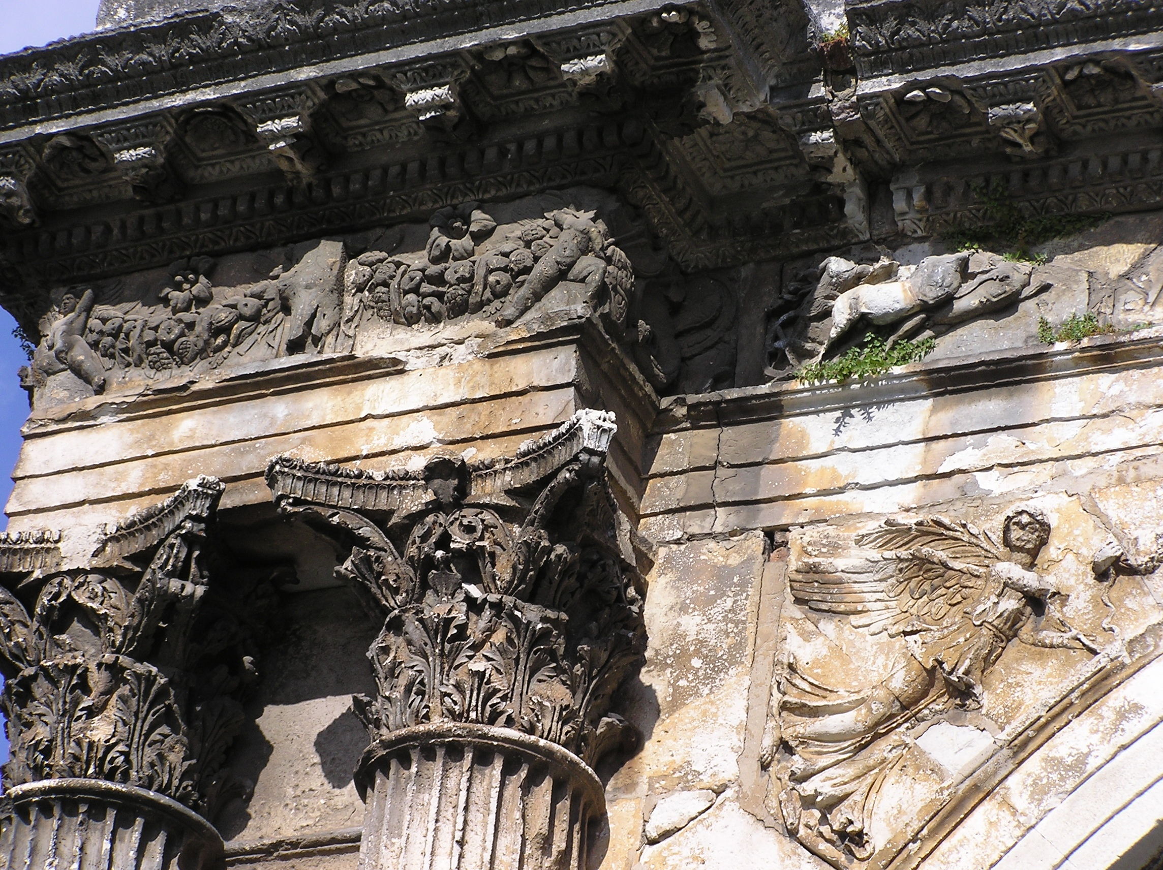 The Ancient Roman Arch of the Sergii (1st century) in Pula (Croatia). Detail.